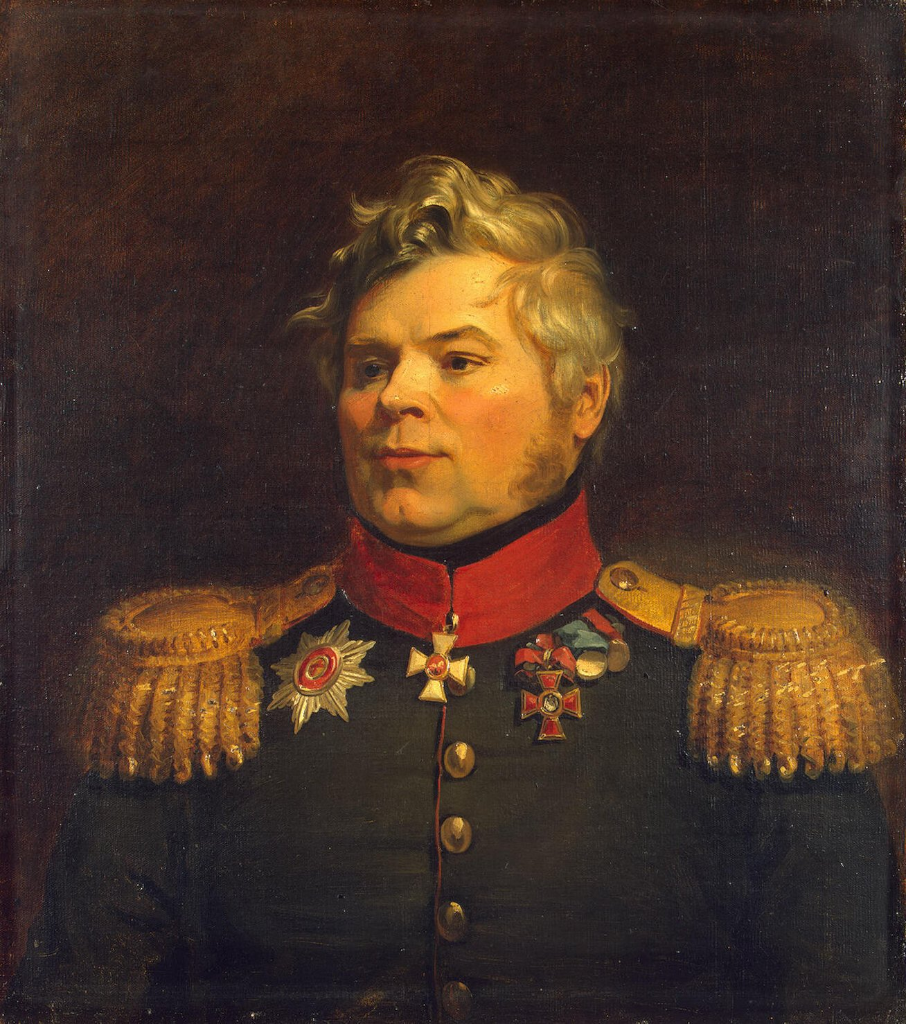 Gamen, Aleksey Yuryevich (18.05.1773 – 11.06.1829) russian lieutenant general